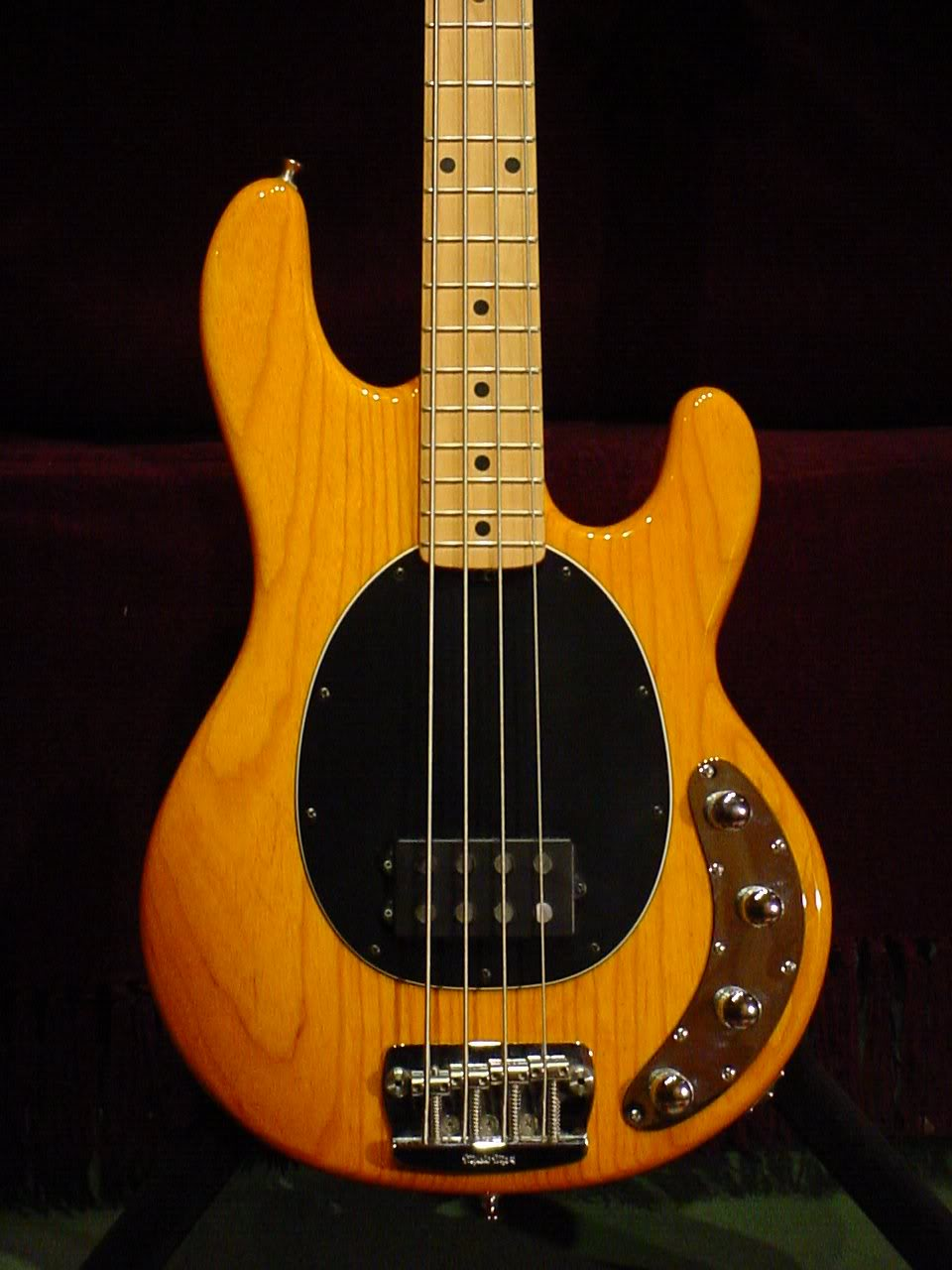 Musicman Stingray Body (Trans Gold, 2001 model)